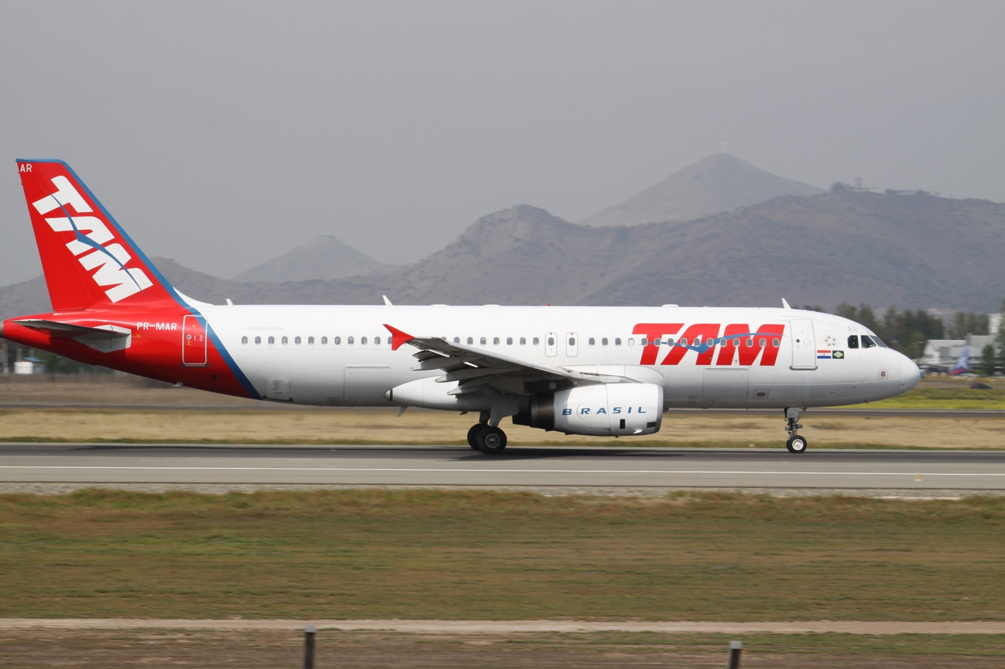 At Santiago